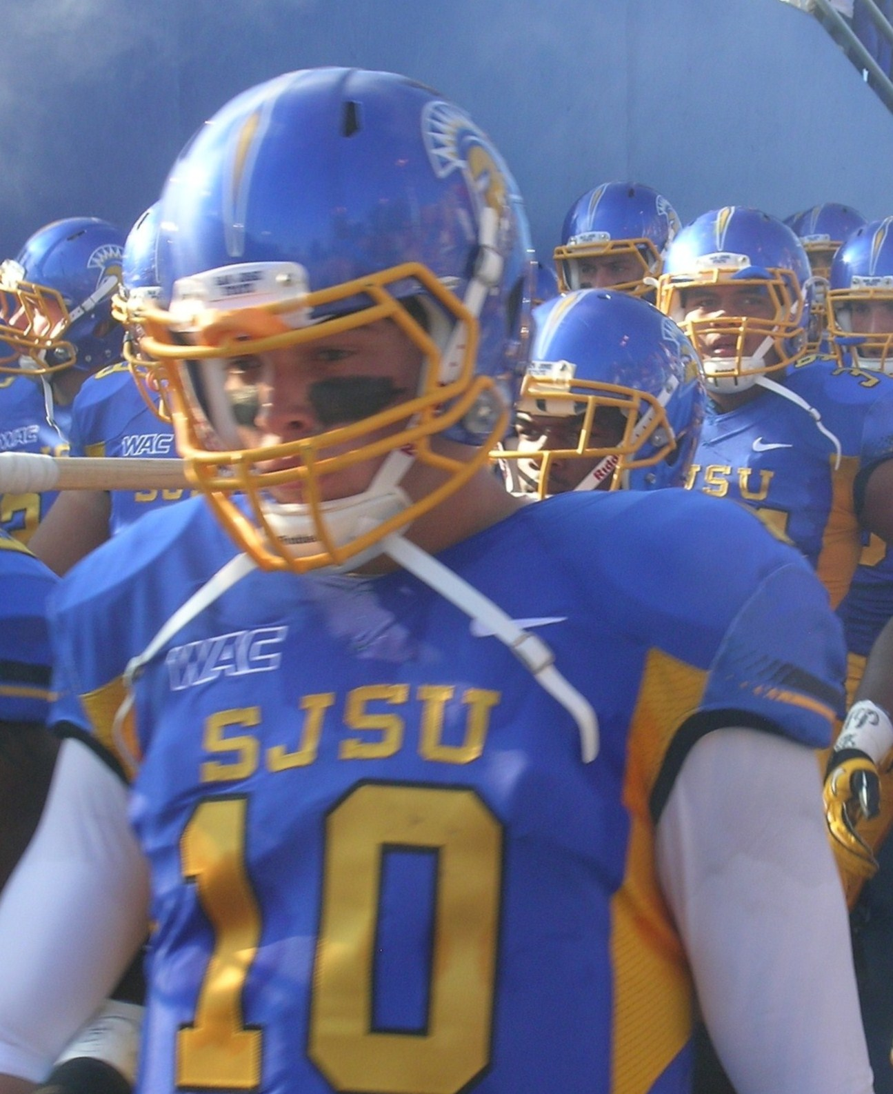 San Jose State quarterback David Fales before the game vs Colorado State on Sept. 15, 2012.